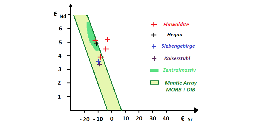 Sr-Nd isotope diagram showing the distribution of ehrwaldite dykes (red crosses). Plotted also the compositional range of basanites from the Massif Central (green), the Hegau (black cross), the Siebengebirge (blue cross) and the Kaiserstuhl (purple cross). Note the close relationship of the ehrwaldites with these magmatites. The green area shows the compositional range of the mantle array (MORB and OIB).